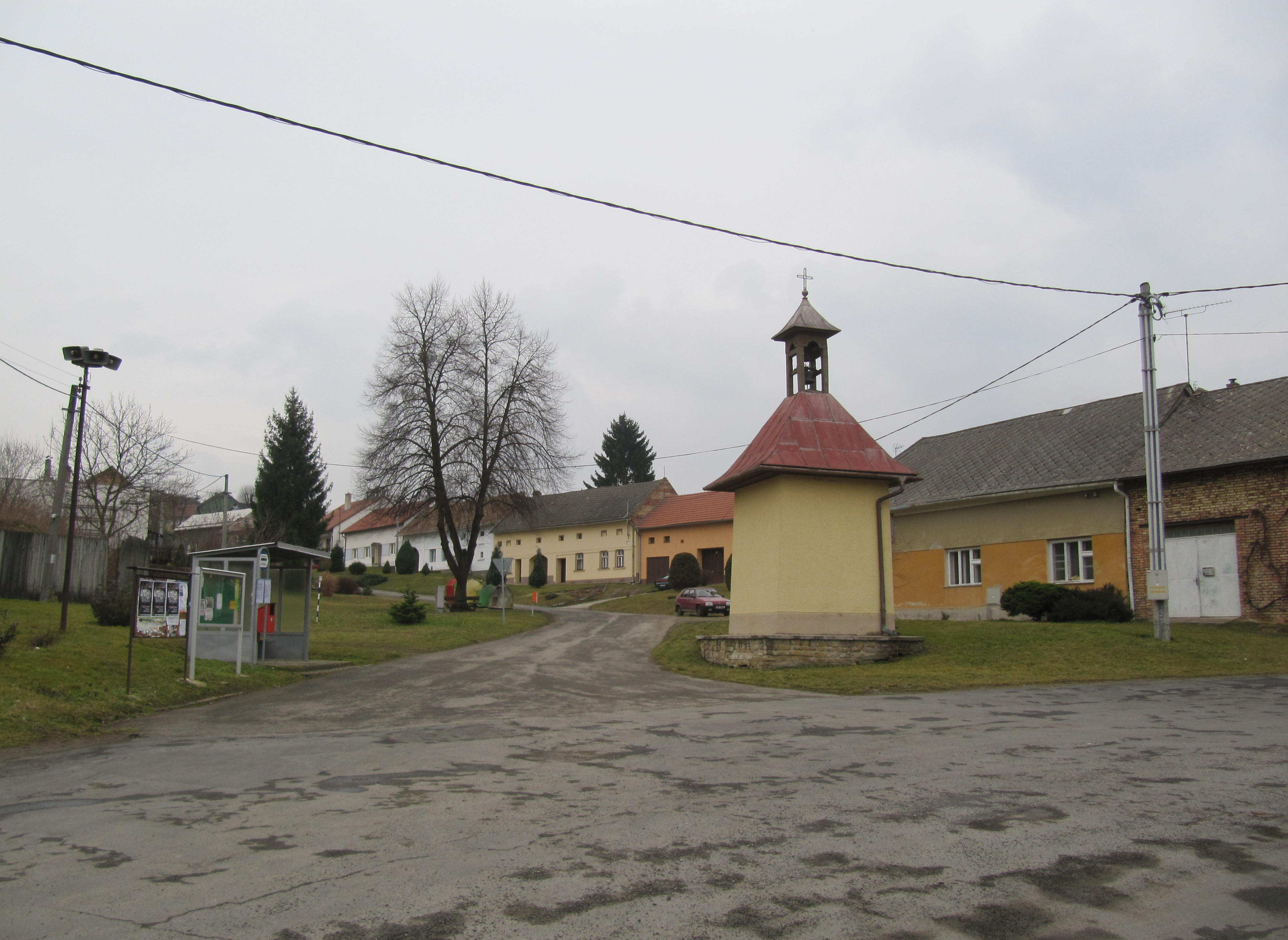 Zdounky, Kroměříž District, Czech Republic, part Cvrčovice.